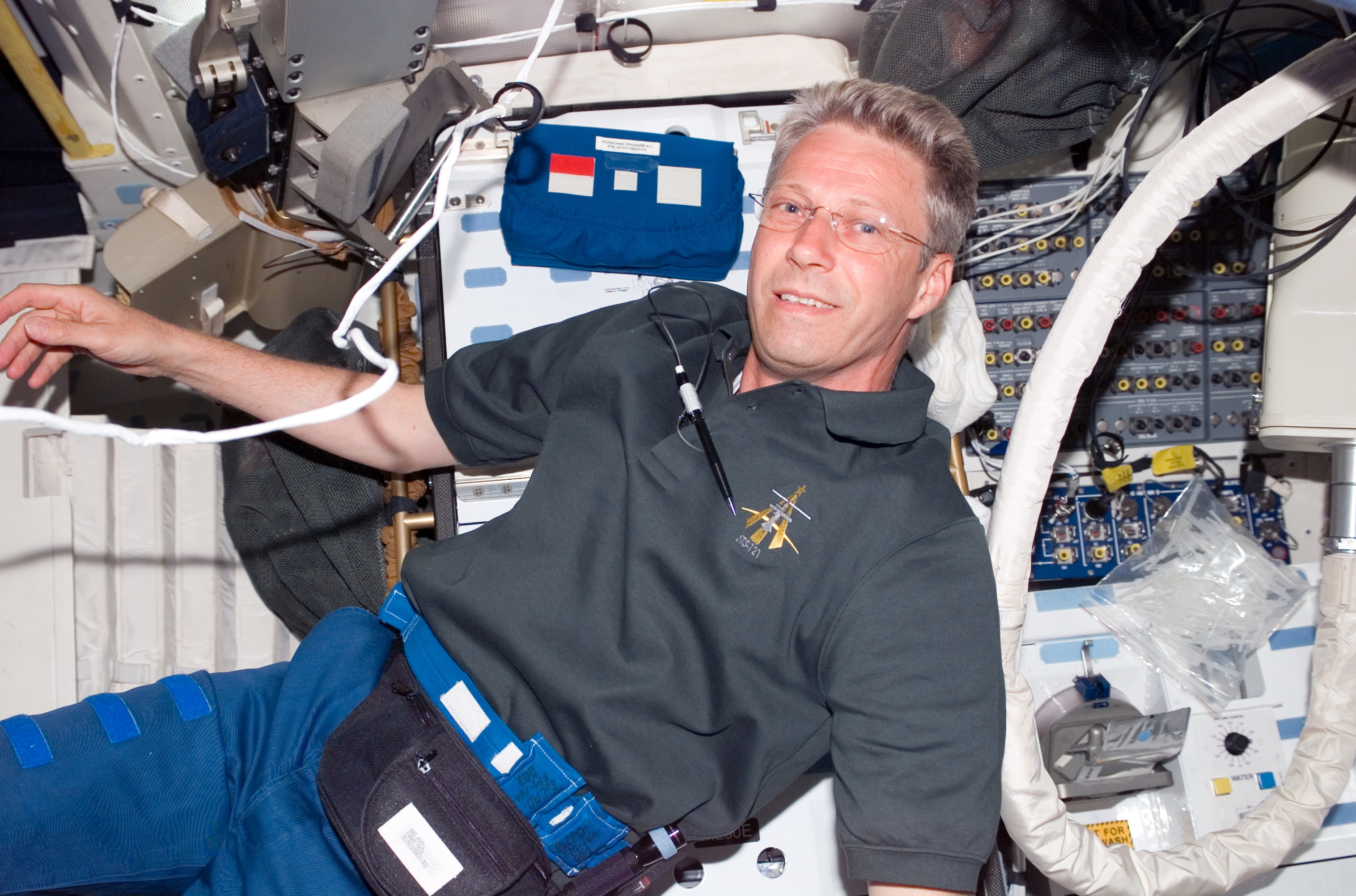 European Space Agency (ESA) astronaut Thomas Reiter of Germany floats on the middeck of the Space Shuttle Discovery. This was among the first group of digital still images showing the crewmembers onboard during their first full day in space.